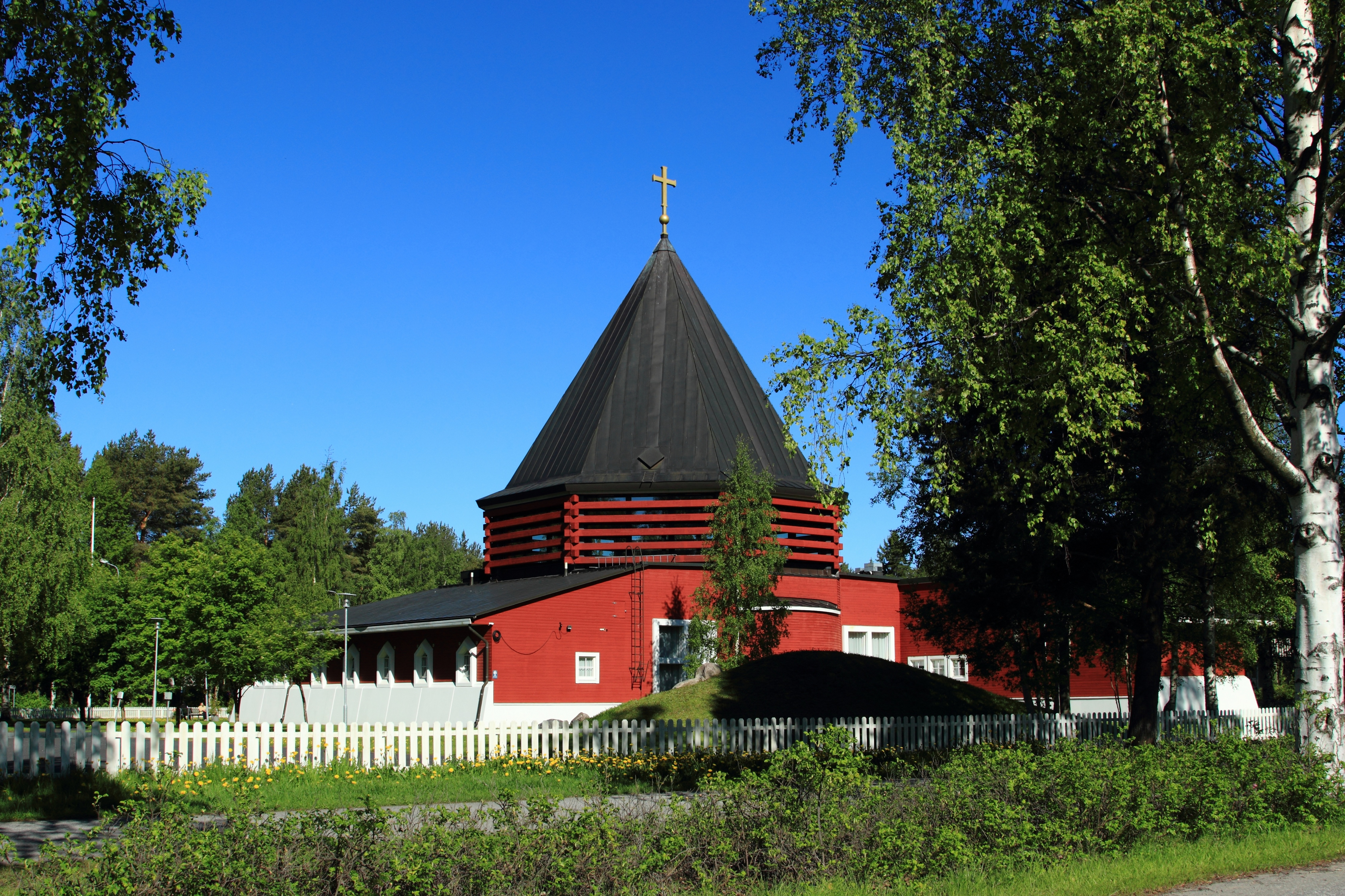 The church of the Holy Family of Nazareth Parish in Koskela neighbourhood, Oulu, Finland.